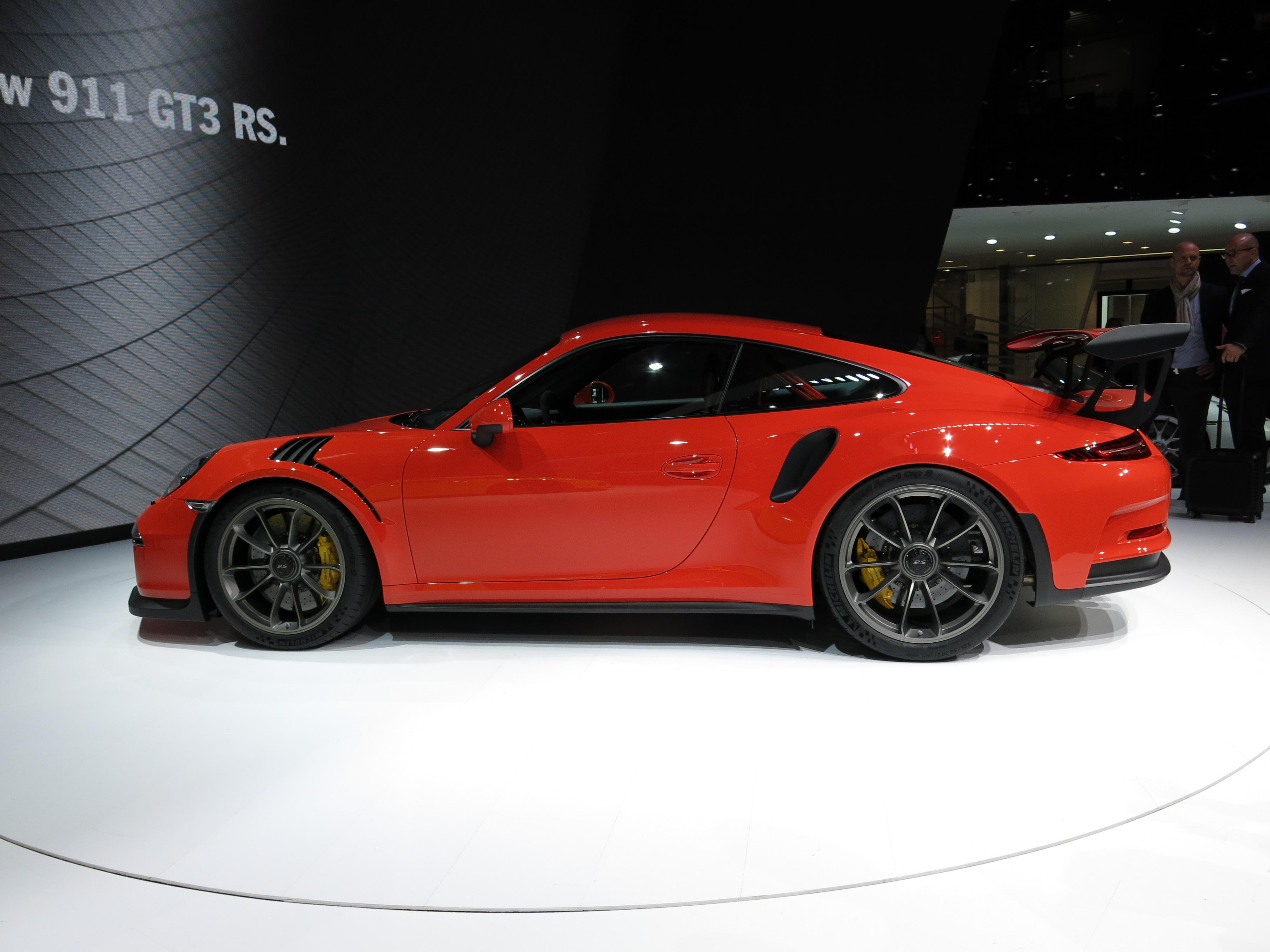 Geneva Motor Show 2015 (photo taken on the first press day)